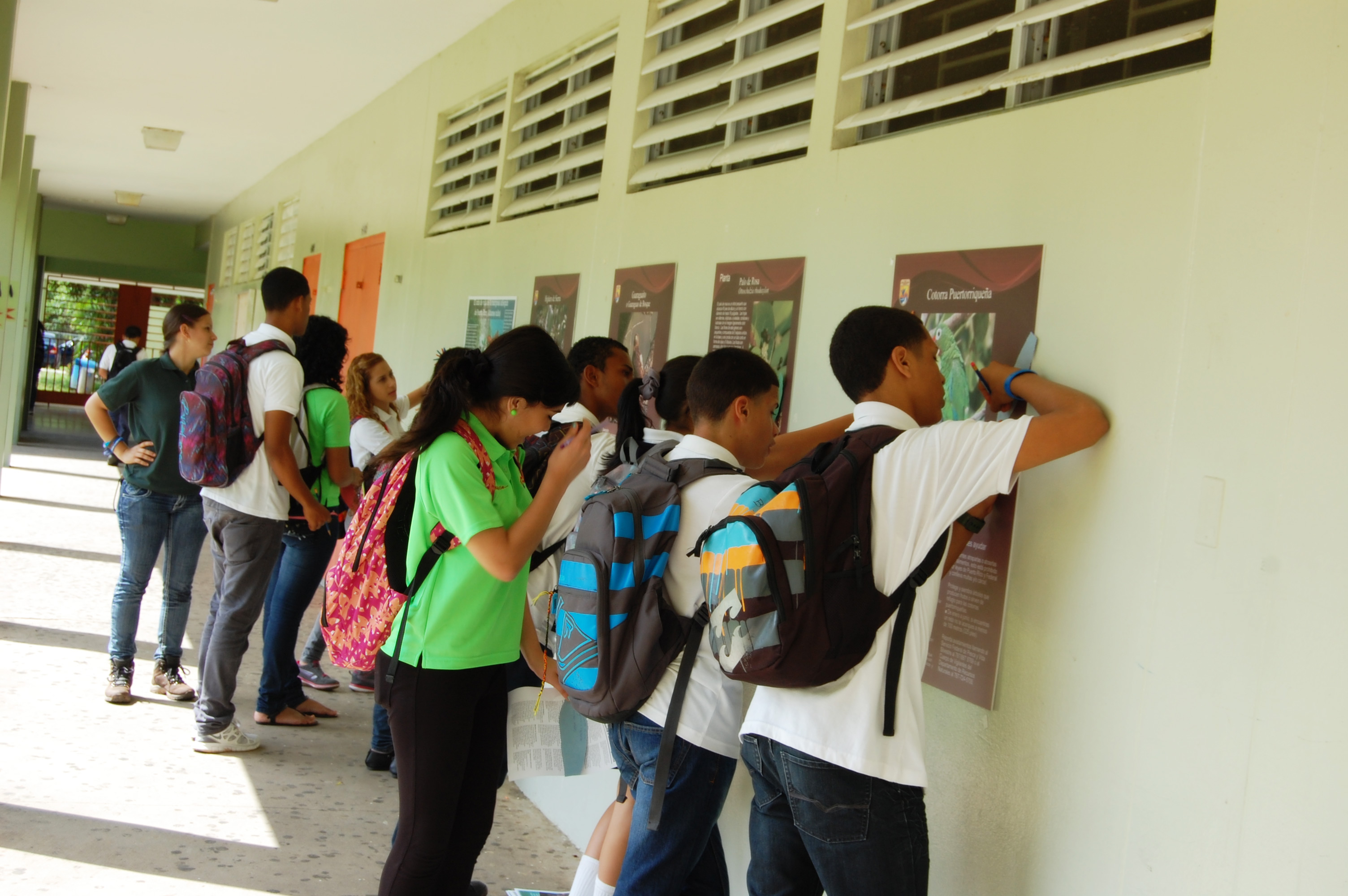 Kids gathering information on display about Endangered Species By Lilibeth Serrano, USFWS Maricao, Puerto Rico May 4, 2012 Endangered Species Day 2012